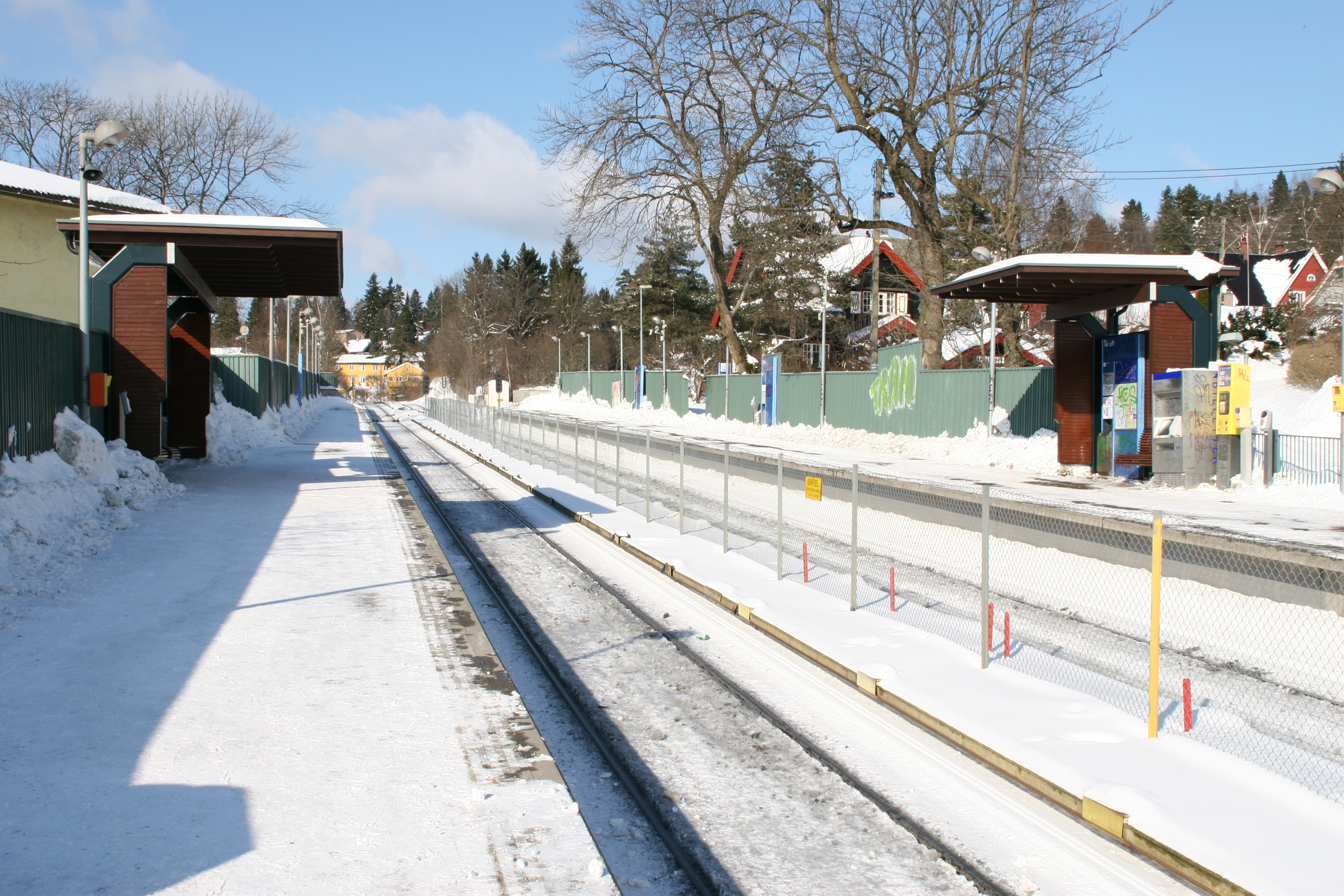 The Tåsen subway station in Oslo, Norway. Date: 2006-03-10. Photographer: eao.